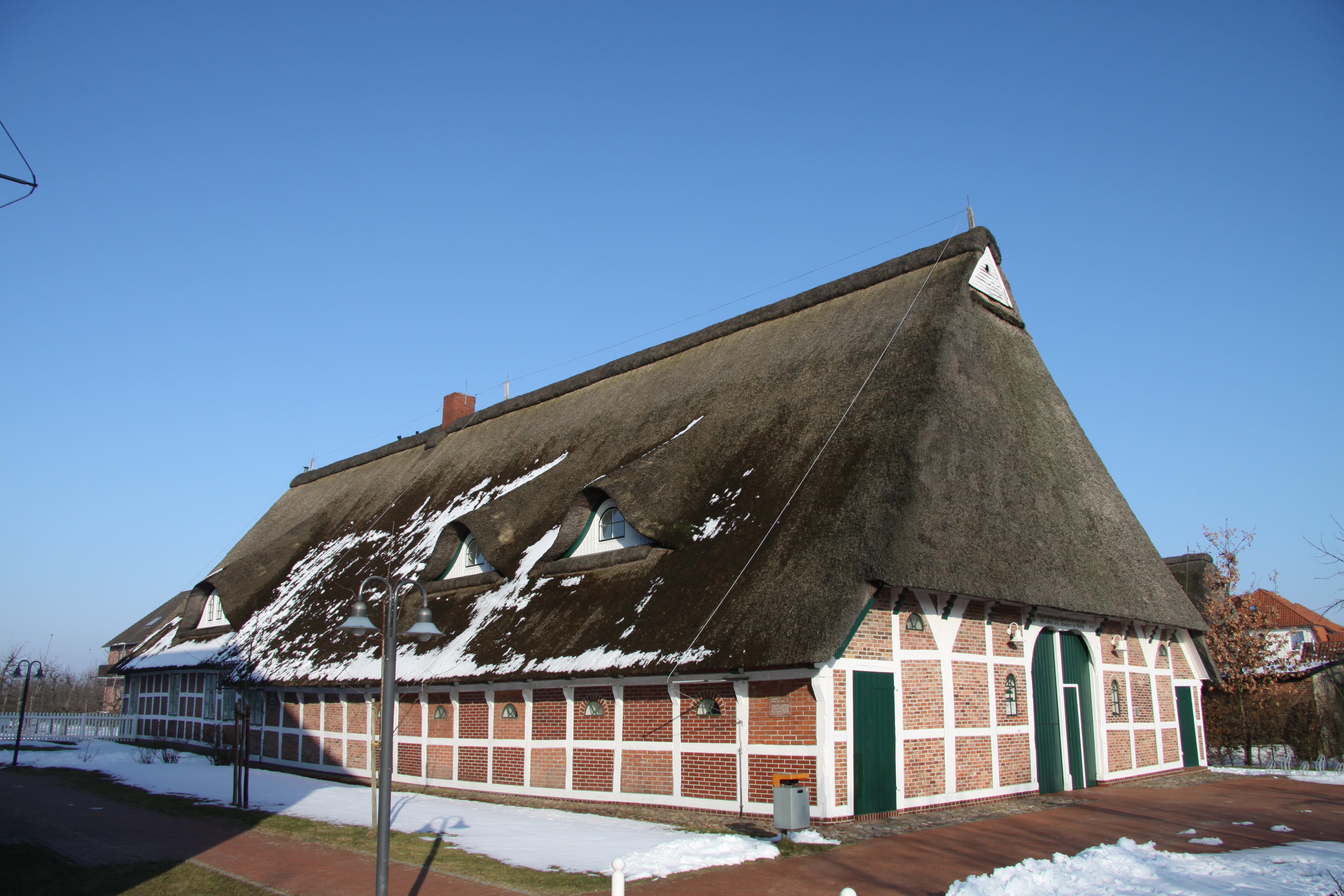 The Museum Altes Land, opened in 1990, documents rural life in the Altes Land region between the 16th and 19th centuries.[1]